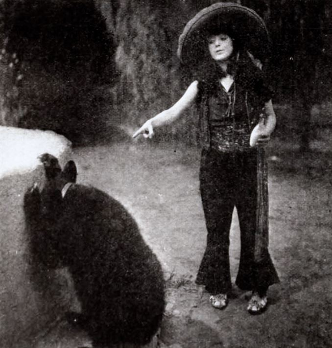 Still from the American comedy film Suzanna (1923) with Mabel Normand and a bear, on page 40 of the May 6, 1922 Exhibitors Herald.